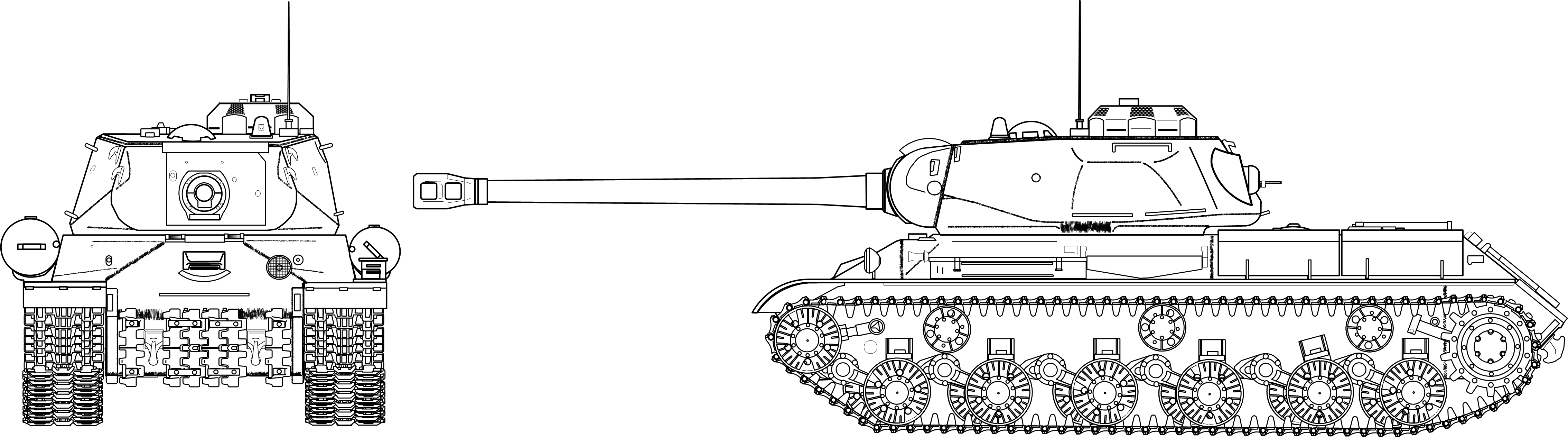 Scheme Soviet heavy tank IS-2 model 1944 Scheme taken on February 3, 2008. Source: Author's work by BVV